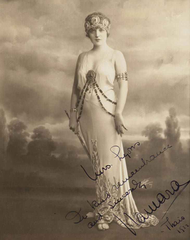 1922 publicity portrait of opera singer Marguerite Namara inscribed to Lucille Lyons of Fort Worth, Texas